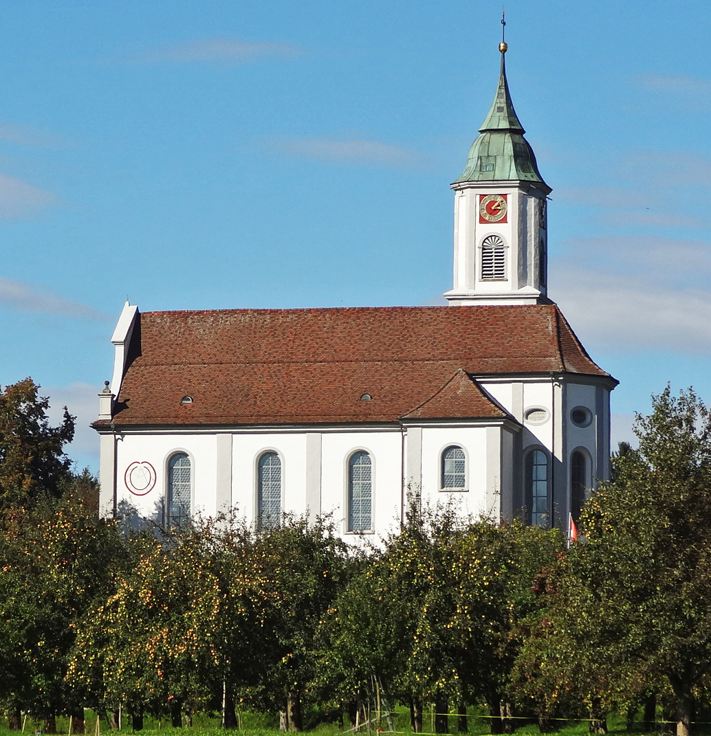 Roman Catholic Saint Peter and Paul church in Homburg, canton of Thurgau, Switzerland. Seen from the south.